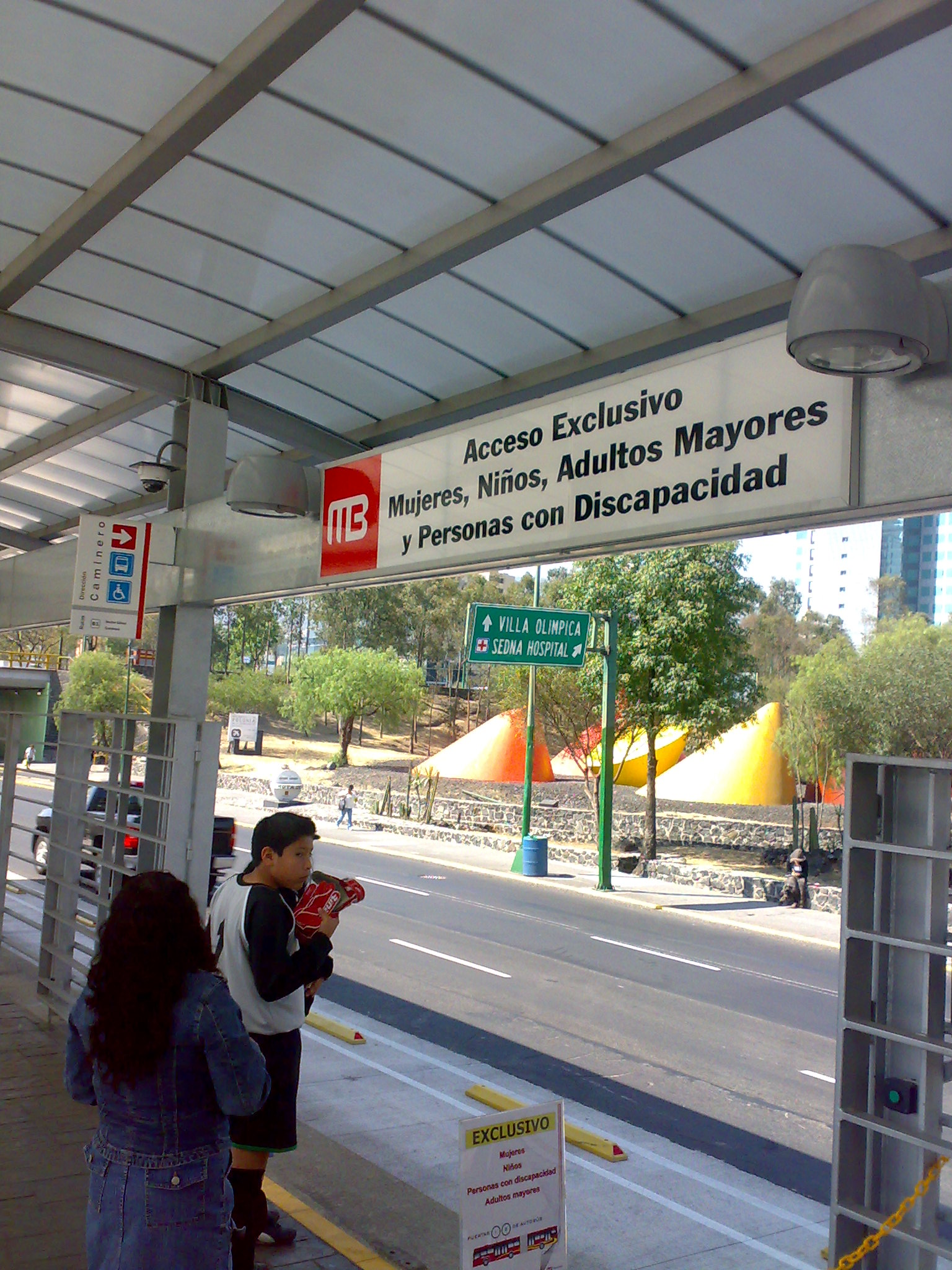 Execlusive access for women and children